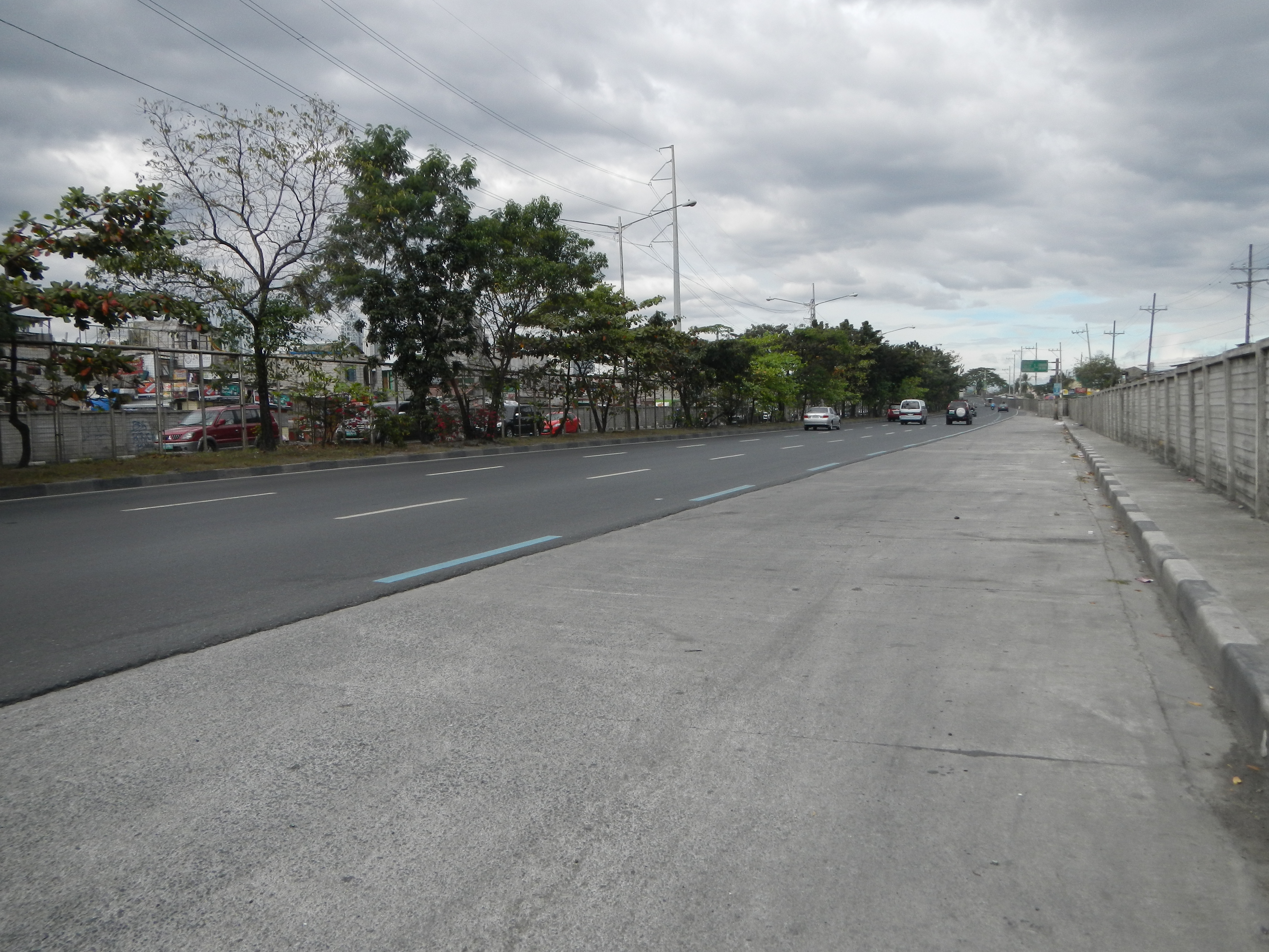 Upload Wizard photos of - a) Guadalupe MRT Station[1] at Epifanio de los Santos Avenue[2] with the visible Pasig River [3] at Guadalupe Nuevo, Makati City, [4] Philippines and beside the San Carlos Seminary [5] and the Pasig River Ferry Service[6] including the neighbor Mandaluyong[7] City and b) PDS Avenue cor. C-5 Service Road Circumferential Road 5[8], Pamayanang Diego Silang- Taguig City[9].